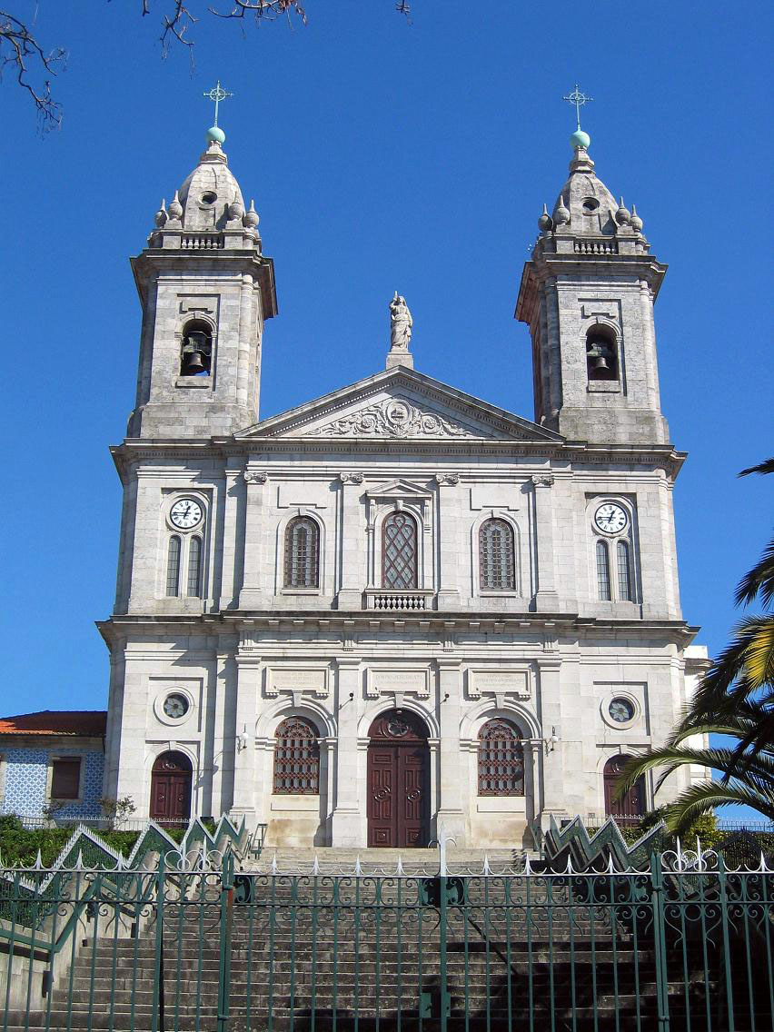 Church of Bonfim (1874/1894) - Oporto - Portugal